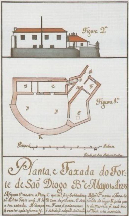 Drawing of S. Diogo Fortress in Salvador, Bahia (c. 1758) by military engineer José Antônio Caldas